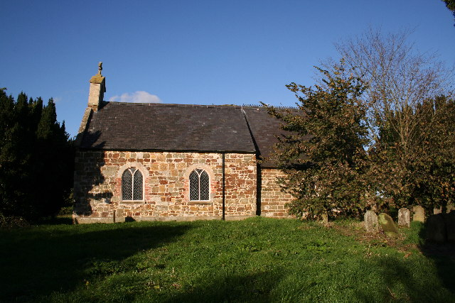 St.Peter's church, Sotby, Lincs. Sadly un-used and dilapidated, St.Peter's has a splendid Norman chancel arch.